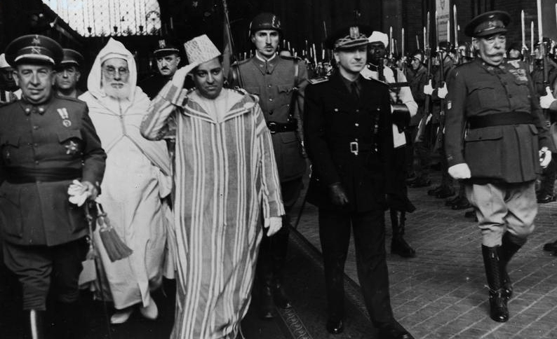 The Caliph of Tetuán, Mulay Hassan el Mehdi, arriving at Atocha Station (Madrid) in 1942. Mulay Hassan was the second and last caliph of Tetuan and of the Spanish Protectorate of Morocco, reigning from 1925 to the end of the protectorate in 1956. Son of the first caliph Mohammed el Mehdi, he was the nephew of the Sultan of Morocco Mulay Yussuf (died 1927) and cousin of his successor, Mohammed ben Yussuf. The caliph of Tetuán was the delegate of the sultan in the Spanish Protectorate. The caliph's powers were limited and mostly ceremonial since effective power was exercised by the Spanish high commissioner, who likewise resided in Tetuán.